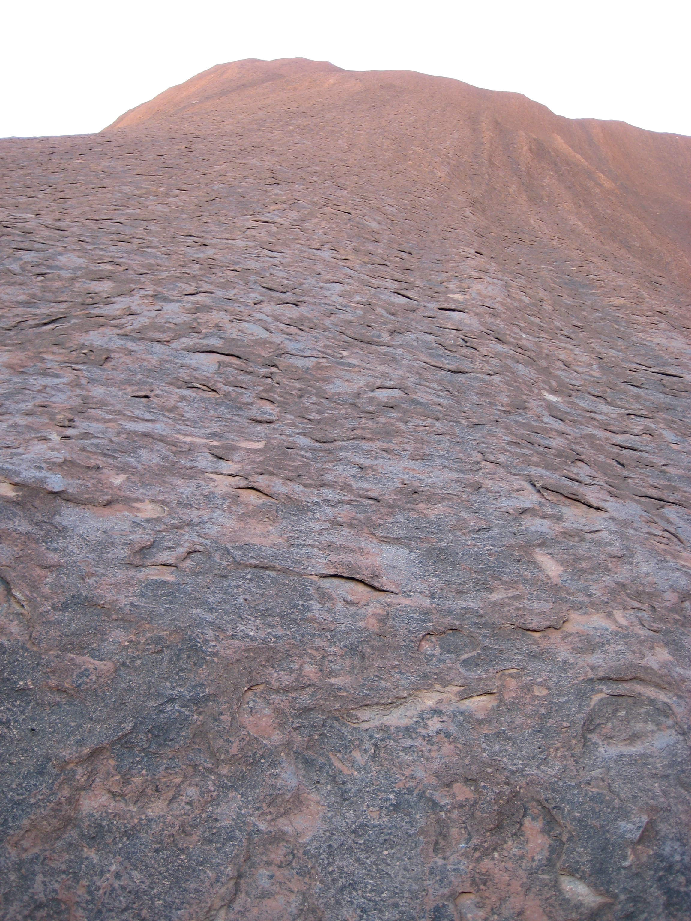 Surface detail of Uluru/Ayers Rock, showing the various colours of weathered/unweathered rock and the flakey structure.